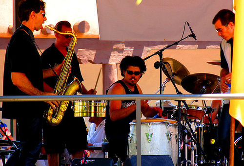 Playing in the Old town Plaza...great salsa band!